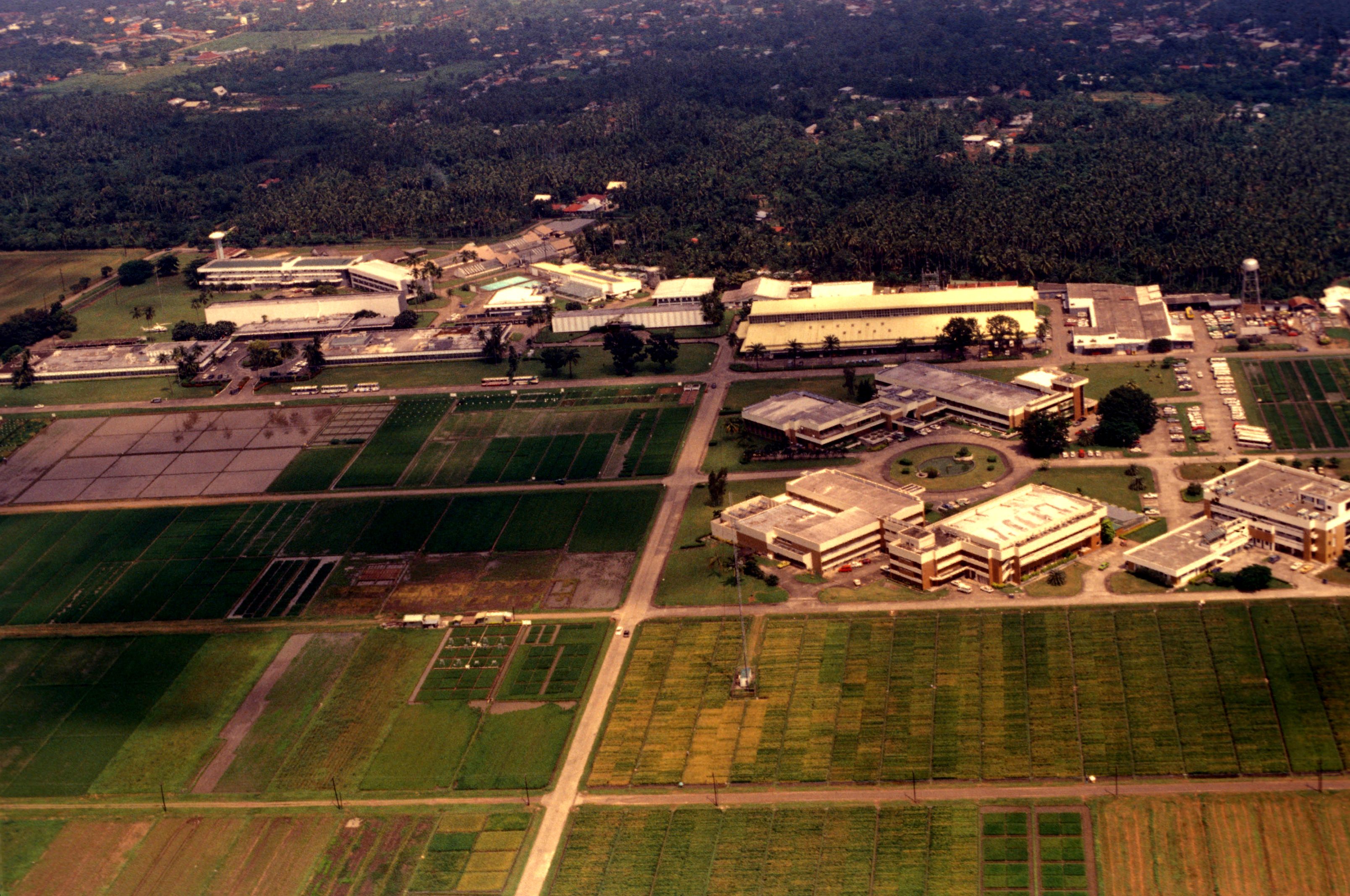 Aerial view of IRRI compound in 2006. Part of the image collection of the International Rice Research Institute (IRRI).